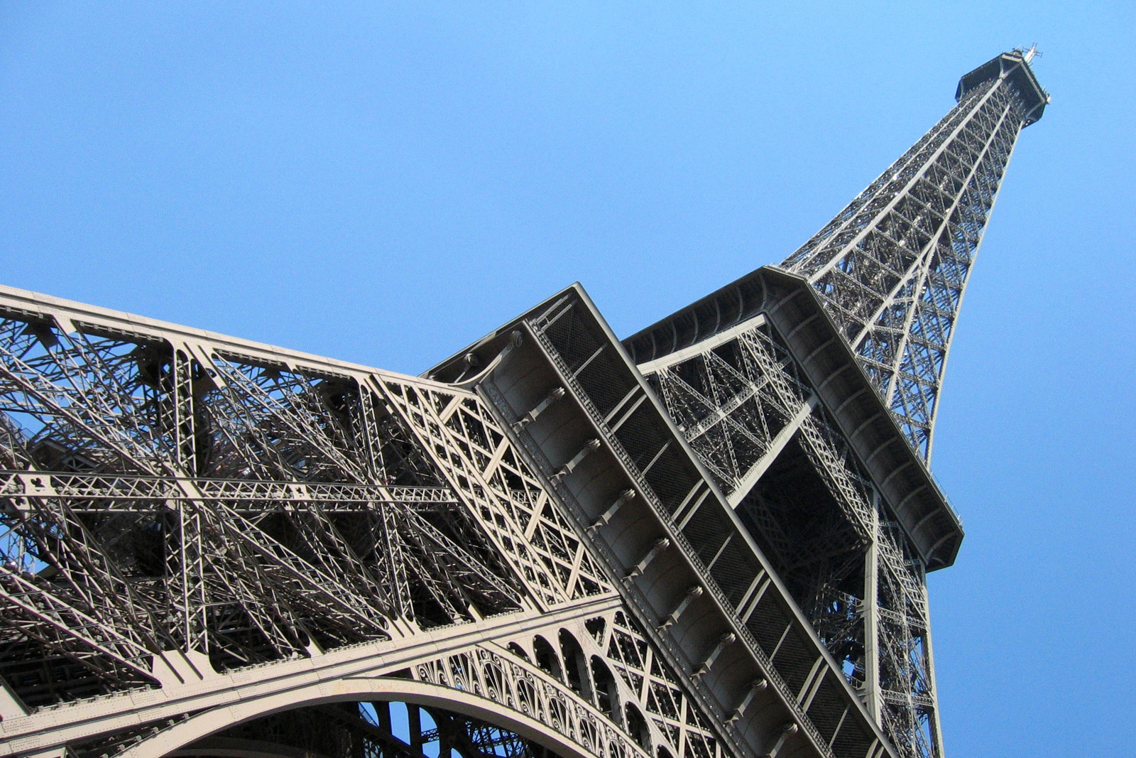 Eiffel Tower in Paris (France)